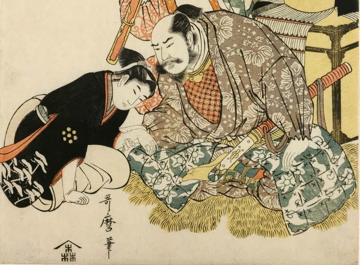 Hideyoshi(豊臣秀吉) taking Ishida Mitsunari(石田三成)'s hand; Mistunari wearing his hair in page-boy topknot. The image here clearly implies that the two are in a "sexual relationship". However, there is no passage in the illustrated biography Ehon Taiko- ki (Picture Book: Annals of the Regent [Hideyoshi]) of 1797–1802 that mentions sexual relations between Hideyoshi and Mitsunari; rather, this suggestion must have come from Ishida gunki (War Chronicle of Ishida Mitsunari) of 1698 (author unidentified).